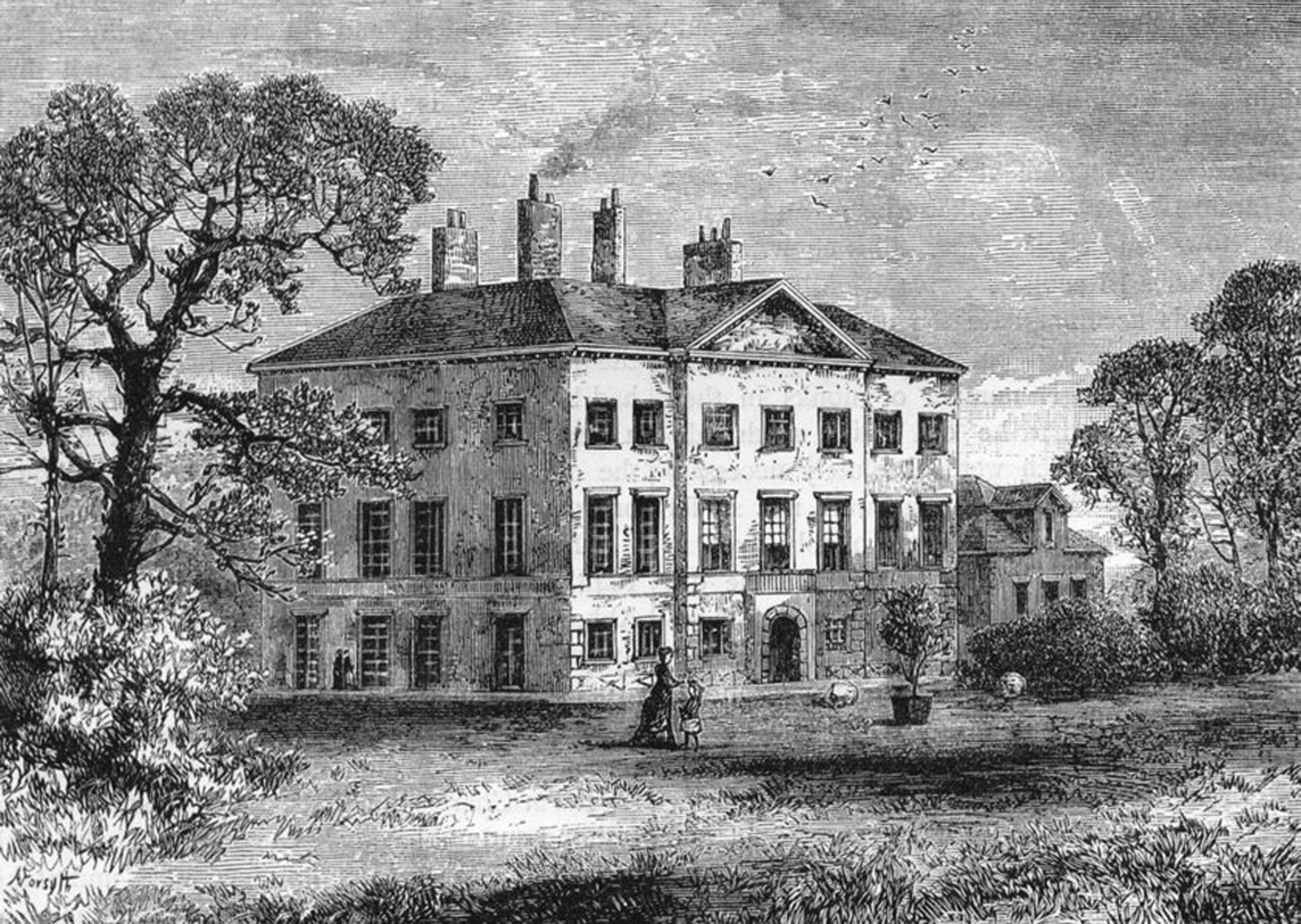 A view of Copped (or Copt) Hall from the north-east as a wood engraved print by Forsyth for an 1888 book by Edward Walford, published by Cassell & Co Ltd.